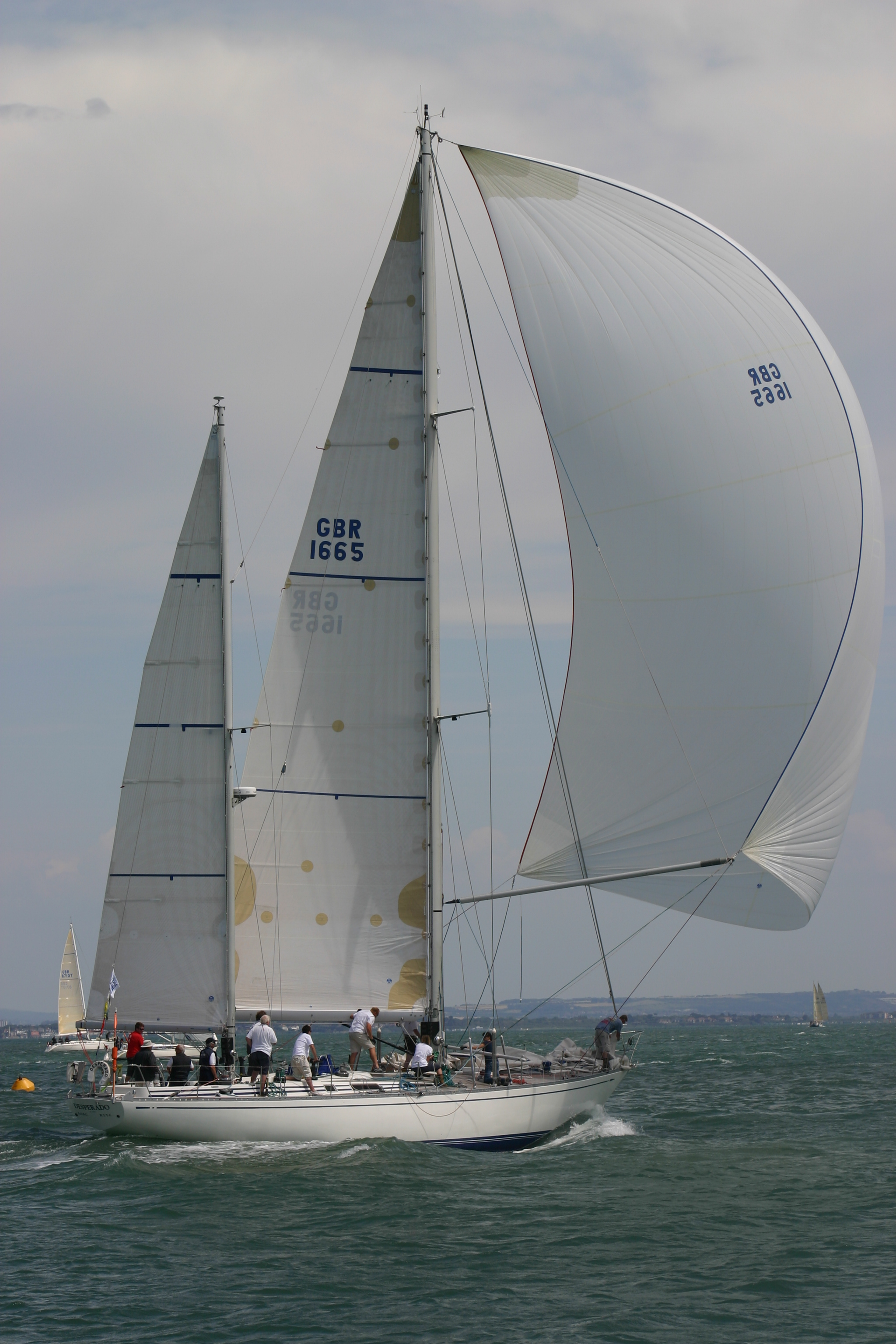 Swan 65 Ketch Desperado GBR1665 at the 2011 Swan Europeans in Cowes (GBR) held by the Royal Yacht Squadron